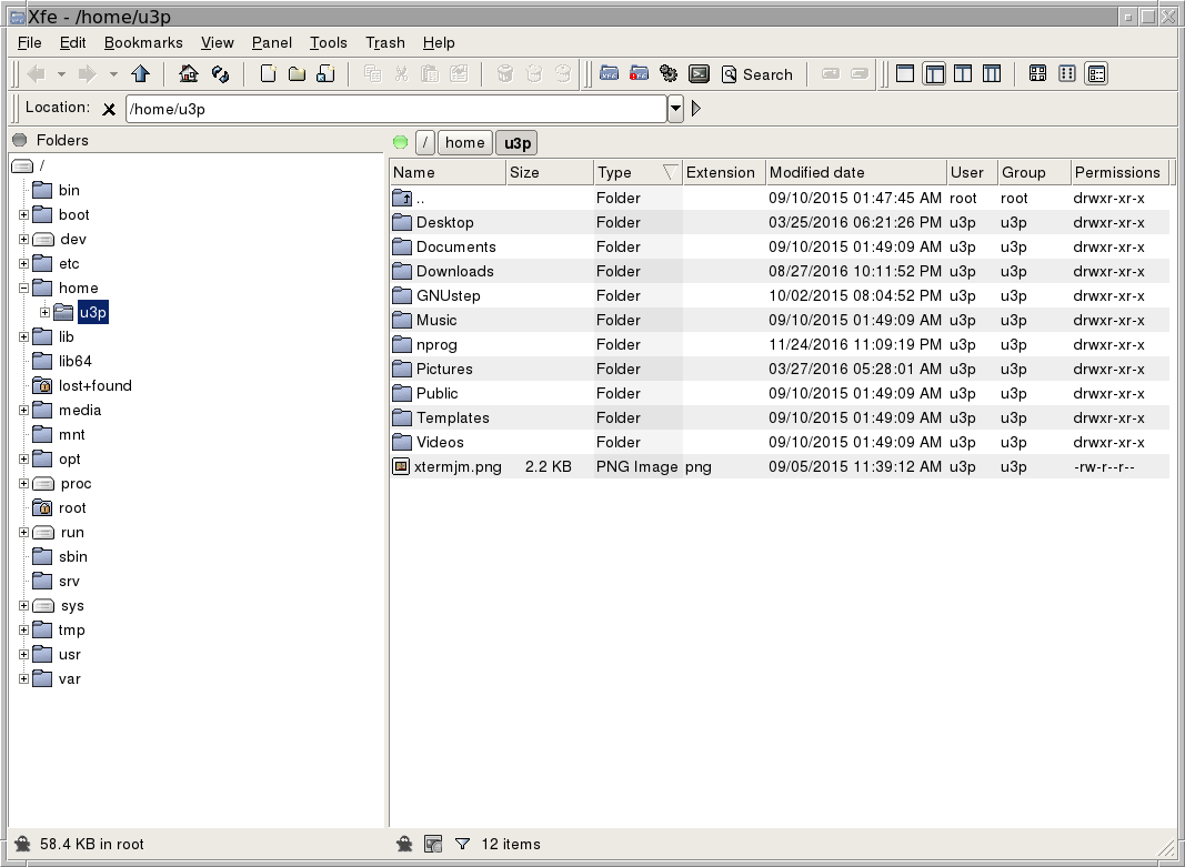 Screenshot of Xfe file manager Version 1.37 in Debian GNU/Linux.